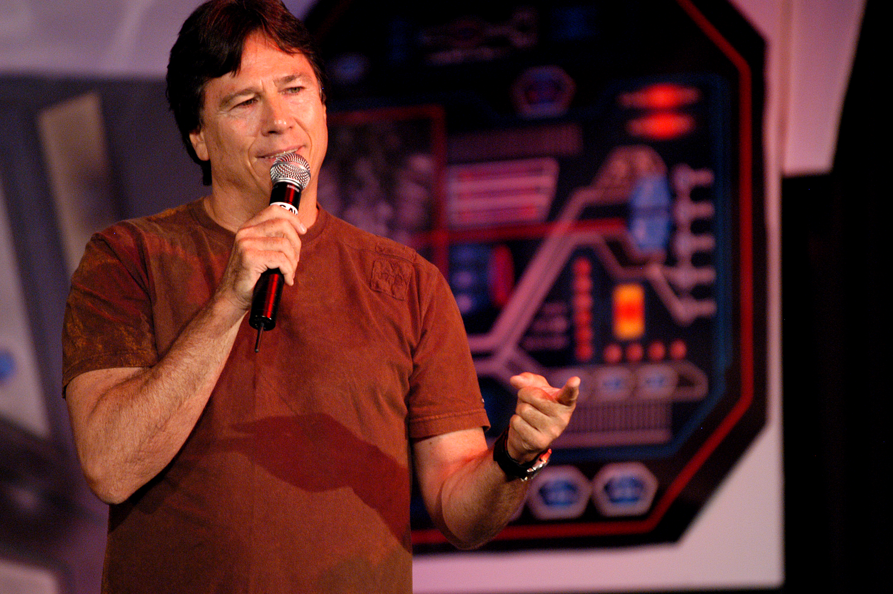 Richard Hatch at Gatecon 2005